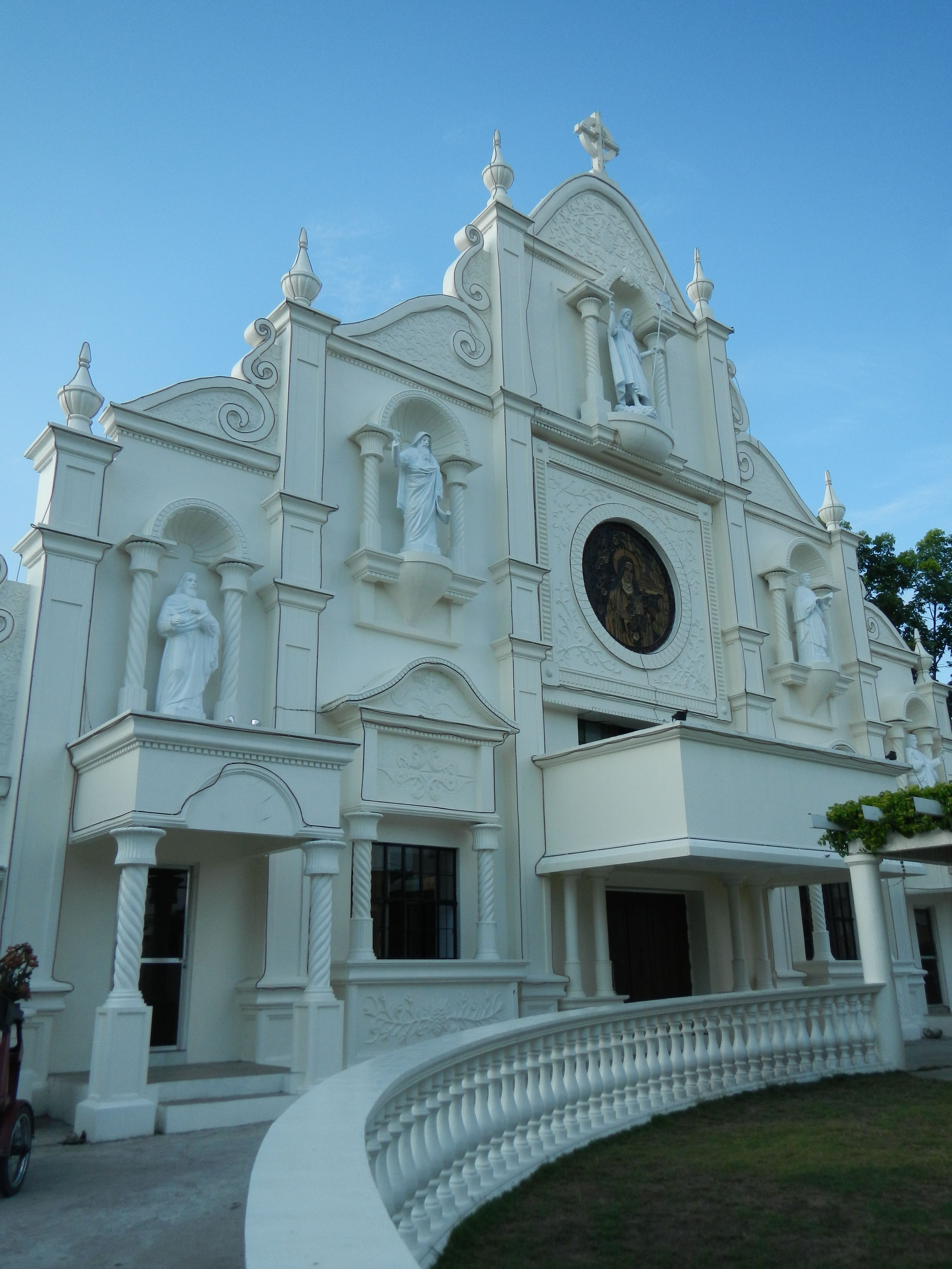 Shrine of Saint Thérèse of the Child Jesus of Ramos (F-1952) Shrine of Saint Therese of the Child Jesus, Ramos, Tarlac[1] [2] the "wedding capital of Tarlac".[3] [4]Coordinates: 15°39'56"N 120°38'24"E[5] [6] [7]Vicariate of St. Catherine of Alexandria Vicar Forane: Father Alfredo Dizon (F-1952) Ramos 2311 Tarlac, Philippines Titular: St. Therese of the Child Jesus, First Sunday of October Parish Priest: Father Thomas Archie Ronald Cortez[8] Roman Catholic Diocese of Tarlac[9] Thérèse of Lisieux[10]Saint Thérèse of Lisieux (January 2, 1873 – September 30, 1897), or Saint Thérèse of the Child Jesus and the Holy Face, born Marie-Françoise-Thérèse Martin, was a French Carmelite nun. She is also known as "The Little Flower of Jesus" or simply, "The Little Flower".